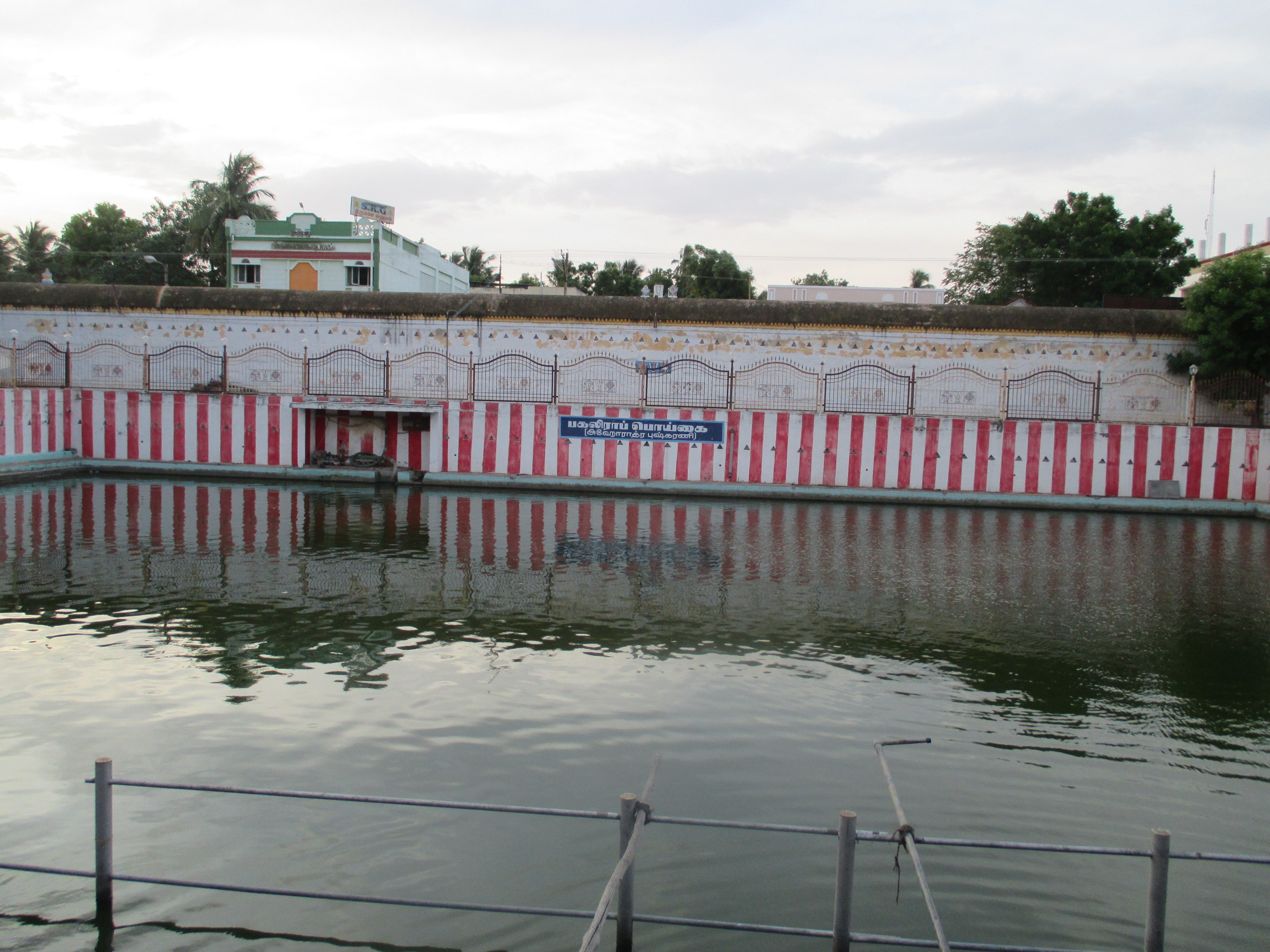 uppiliappan koil1